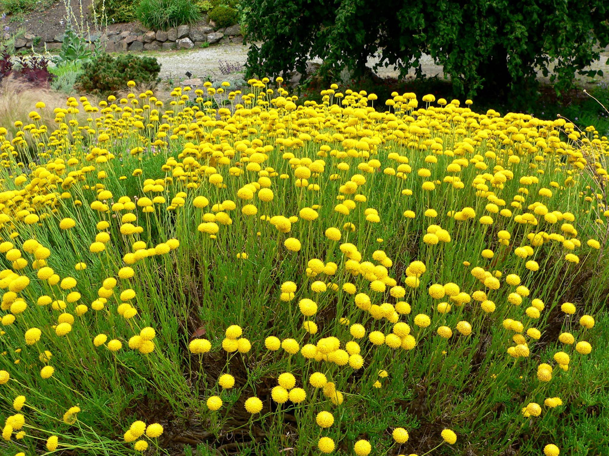 Photo of Santolina virens at the UBC Botanical Garden